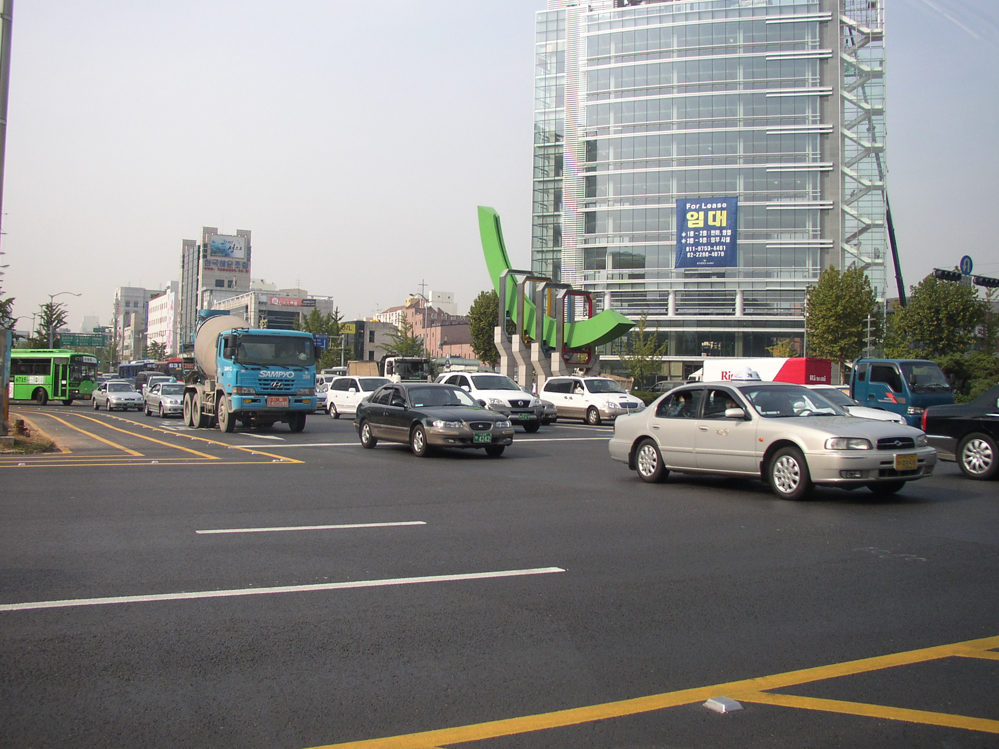 Gangseogu Office Intersection in Seoul, Korea